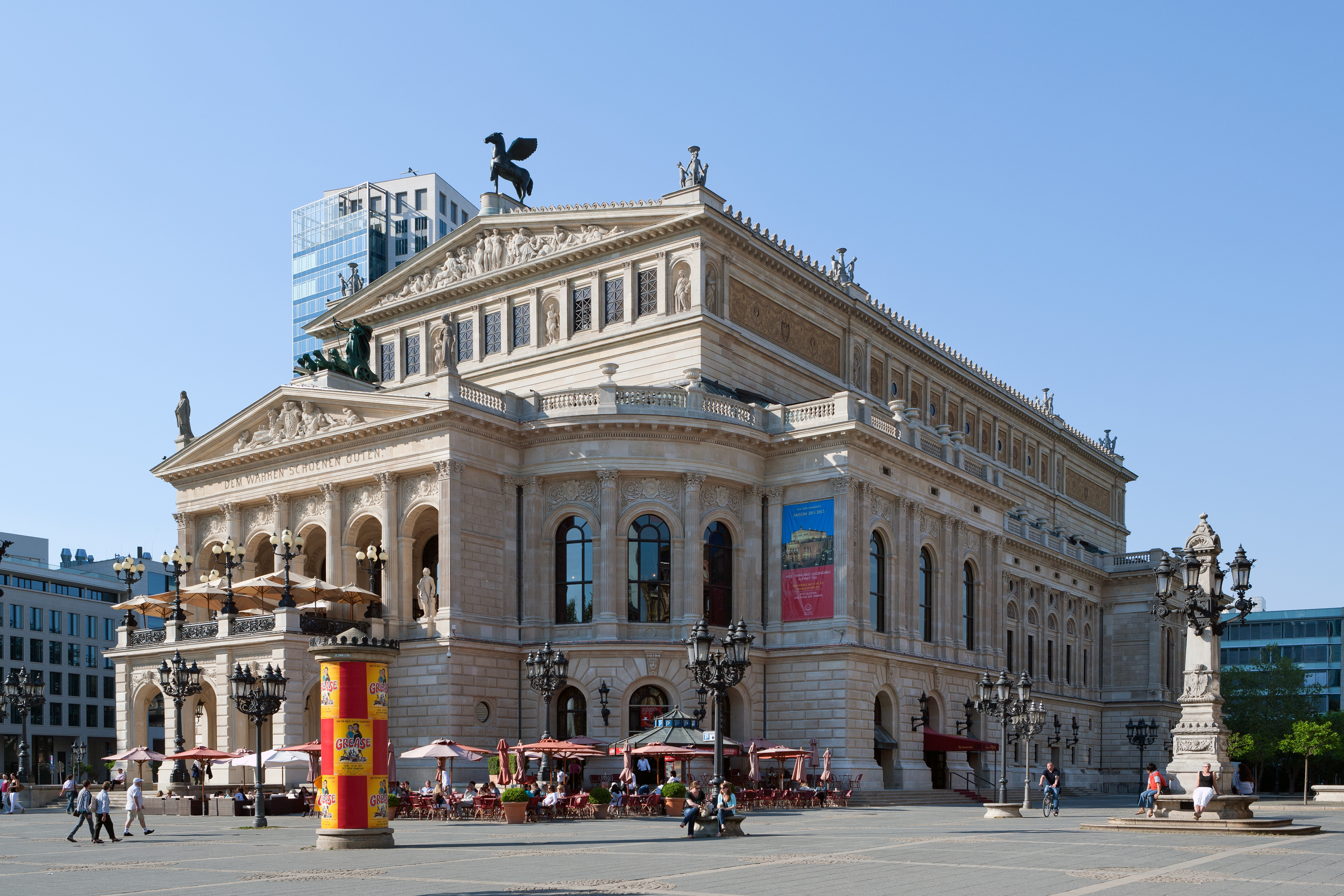 Frankfurt on the Main: Alte Oper (Old Opera) as seen from the southeast